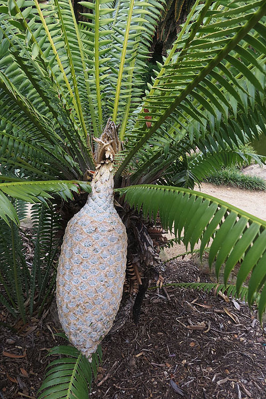 Known as the Giant Dioon, native to southern Mexico. Lotusland, Montecito, Calif. In context at